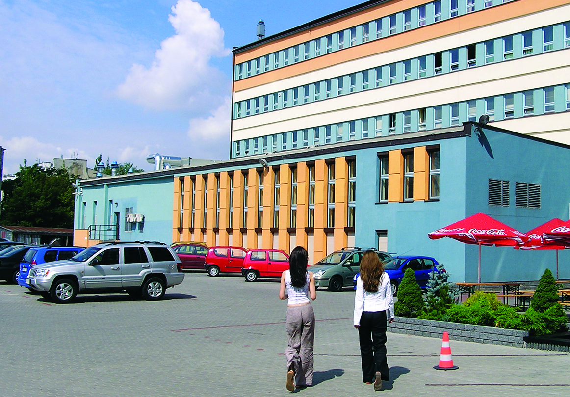 budynek WSFiZ/WSTI